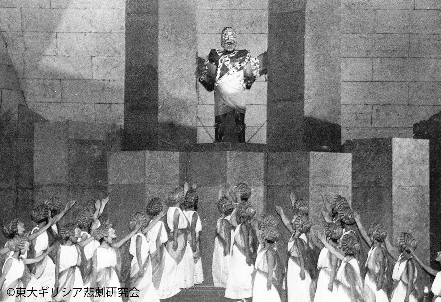 Greek Tragedy 1960 Tokyo University Greek Tragedy Institute-c